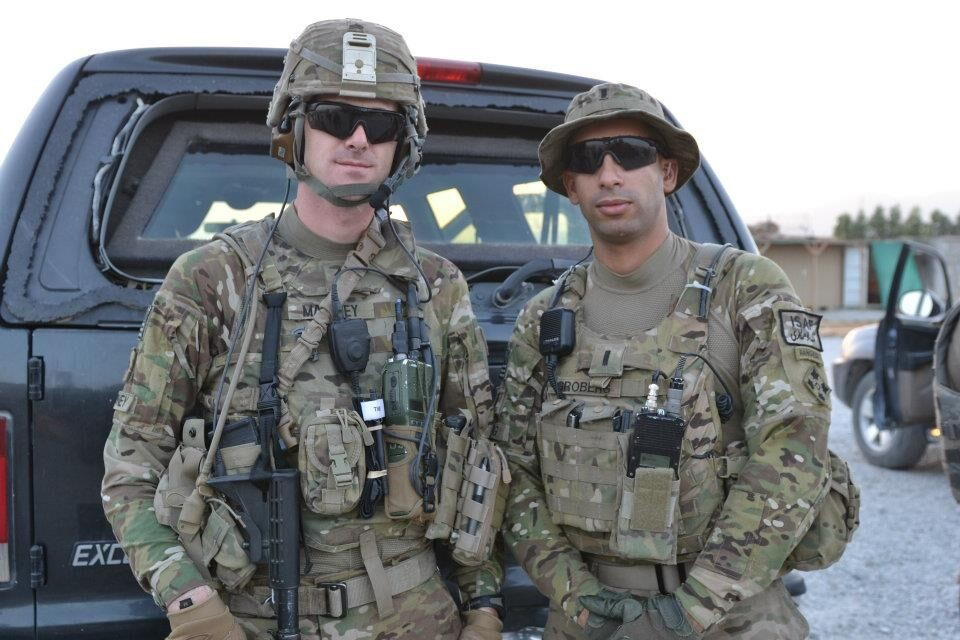 U.S. Army Sgt. Andrew Mahoney, left, of Laingsburg, Mich., is shown with then-1st Lt. Florent Groberg serving on a personal security detail with the 4th Infantry Brigade Combat Team, 4th Infantry Division, during a deployment to Regional Command-East...